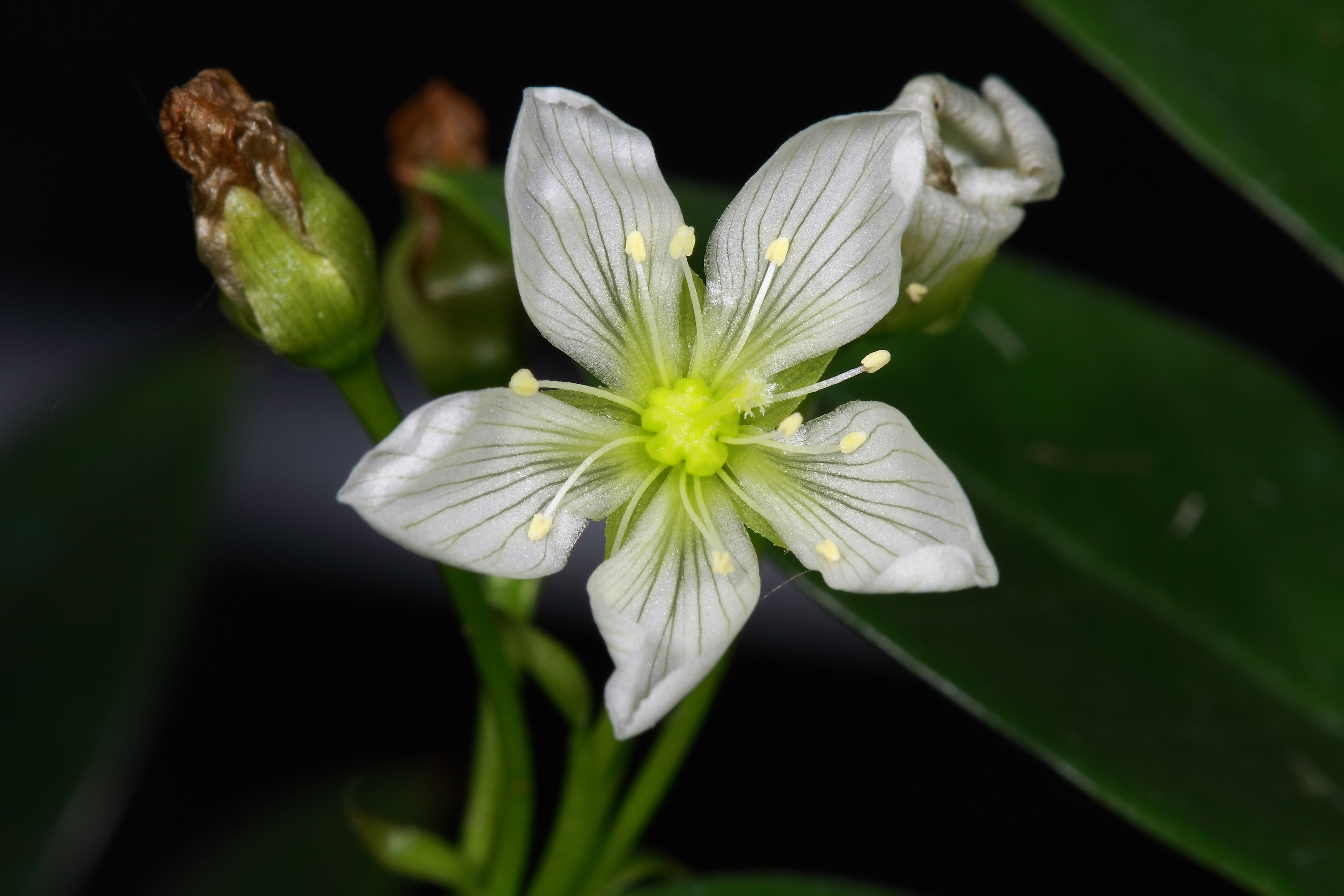 Venus Flytrap flower - 20mm in diameter.